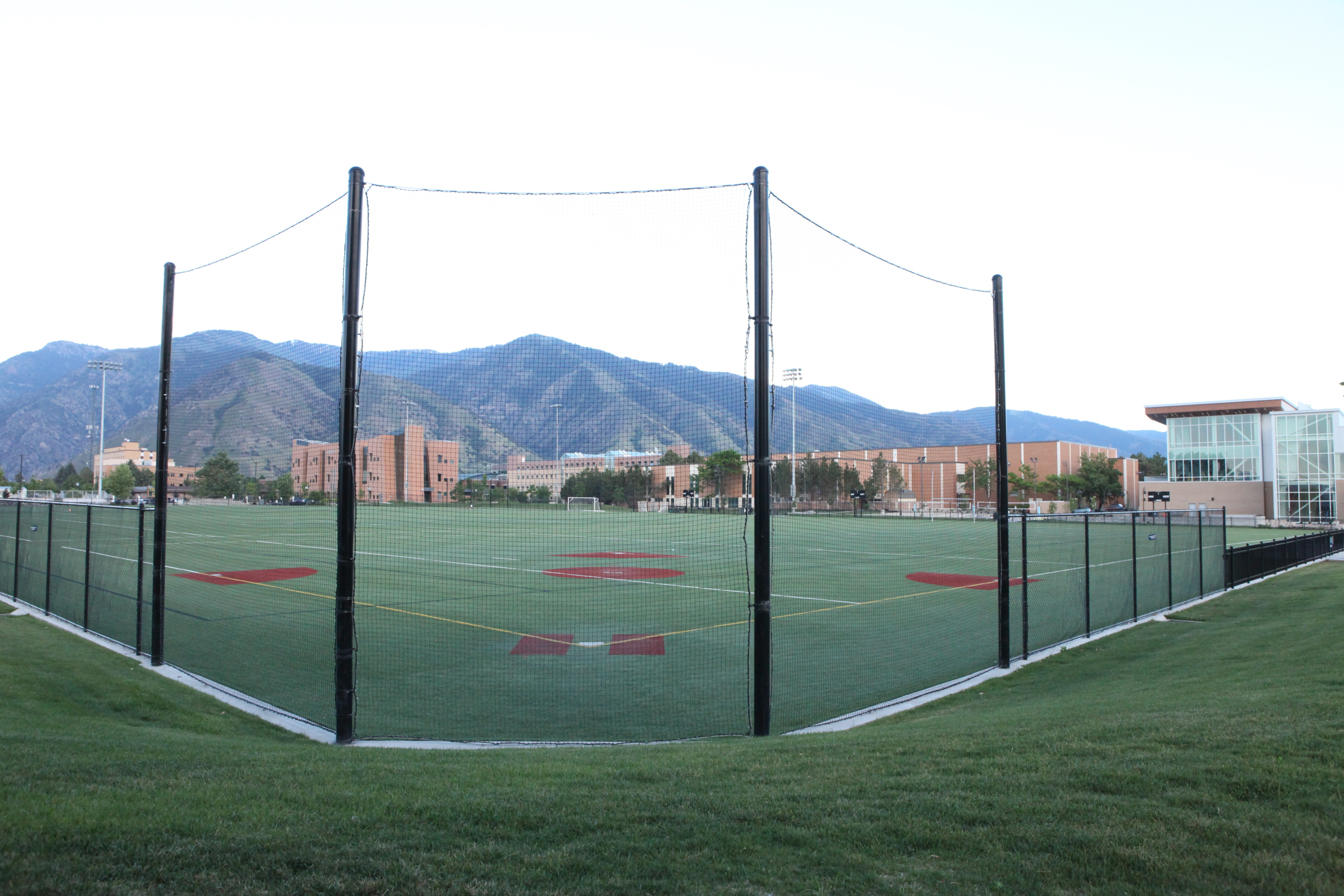 Utah State University's Aggie Legacy Fields provide a place to exercise during the day through the evening.